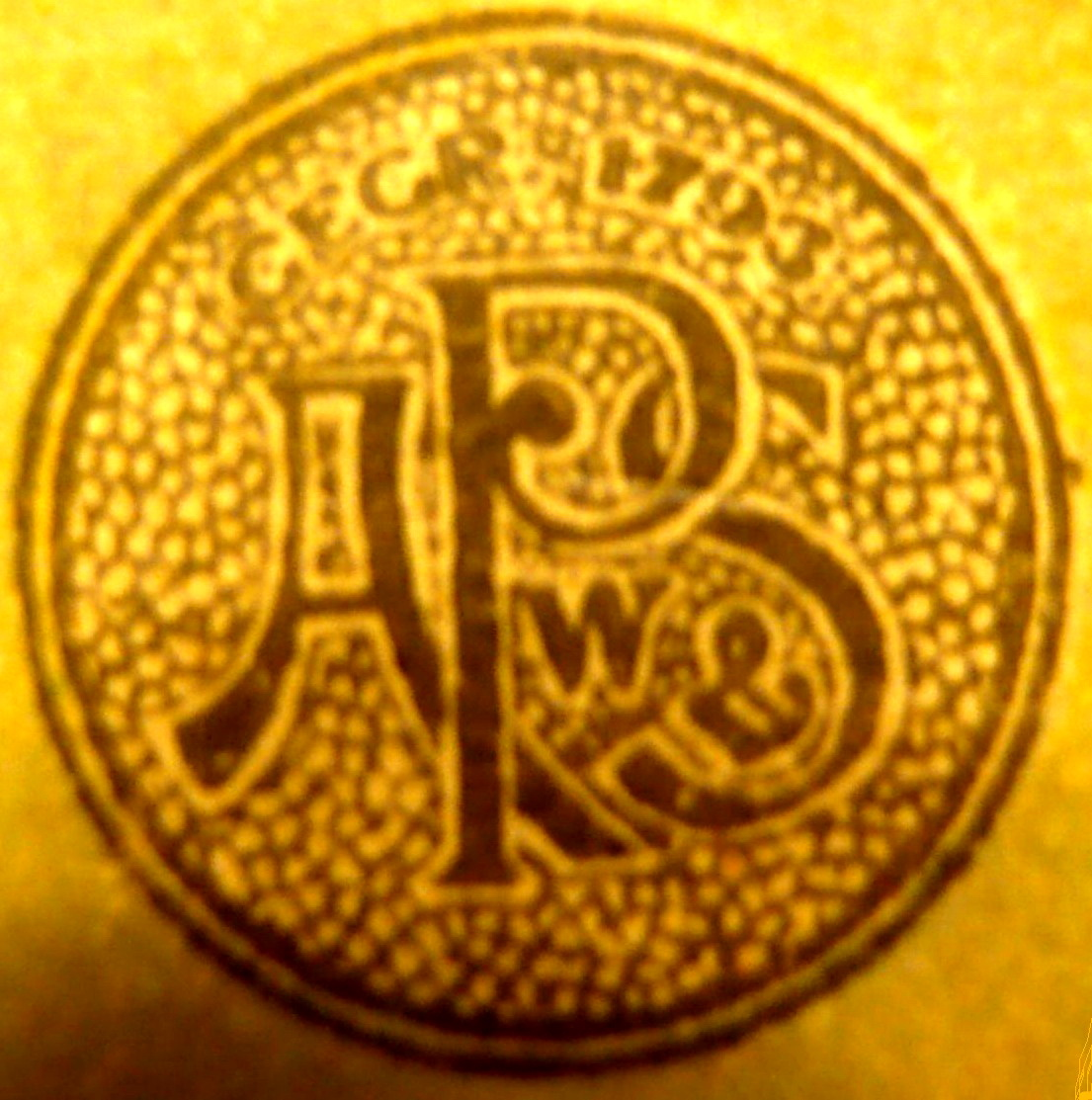 Logo of A. Pichler's Witwe & Söhn, publisher and printer based in Vienna and founded in 1793